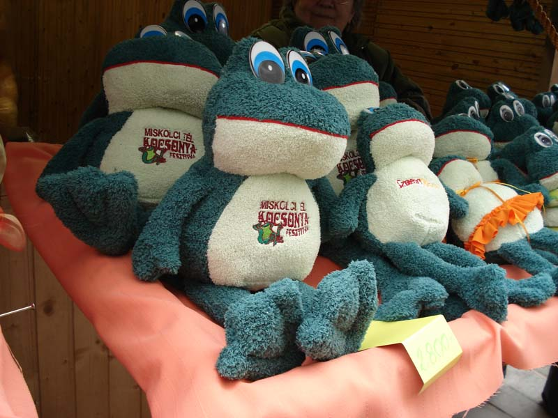 Jelly festival, Miskolc, Hungary, 2008